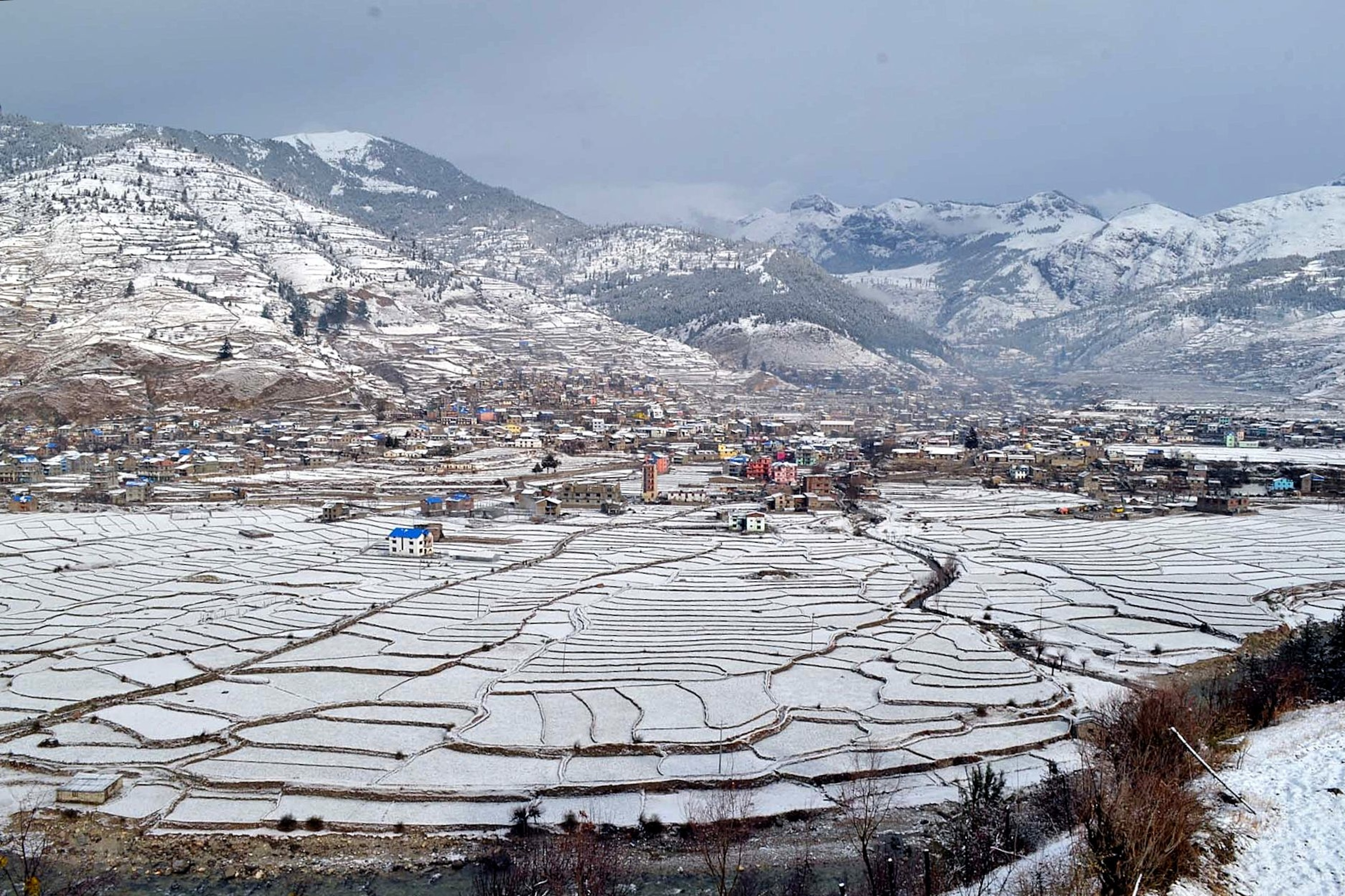 Beautiful valley in the himalayan district of Nepal.